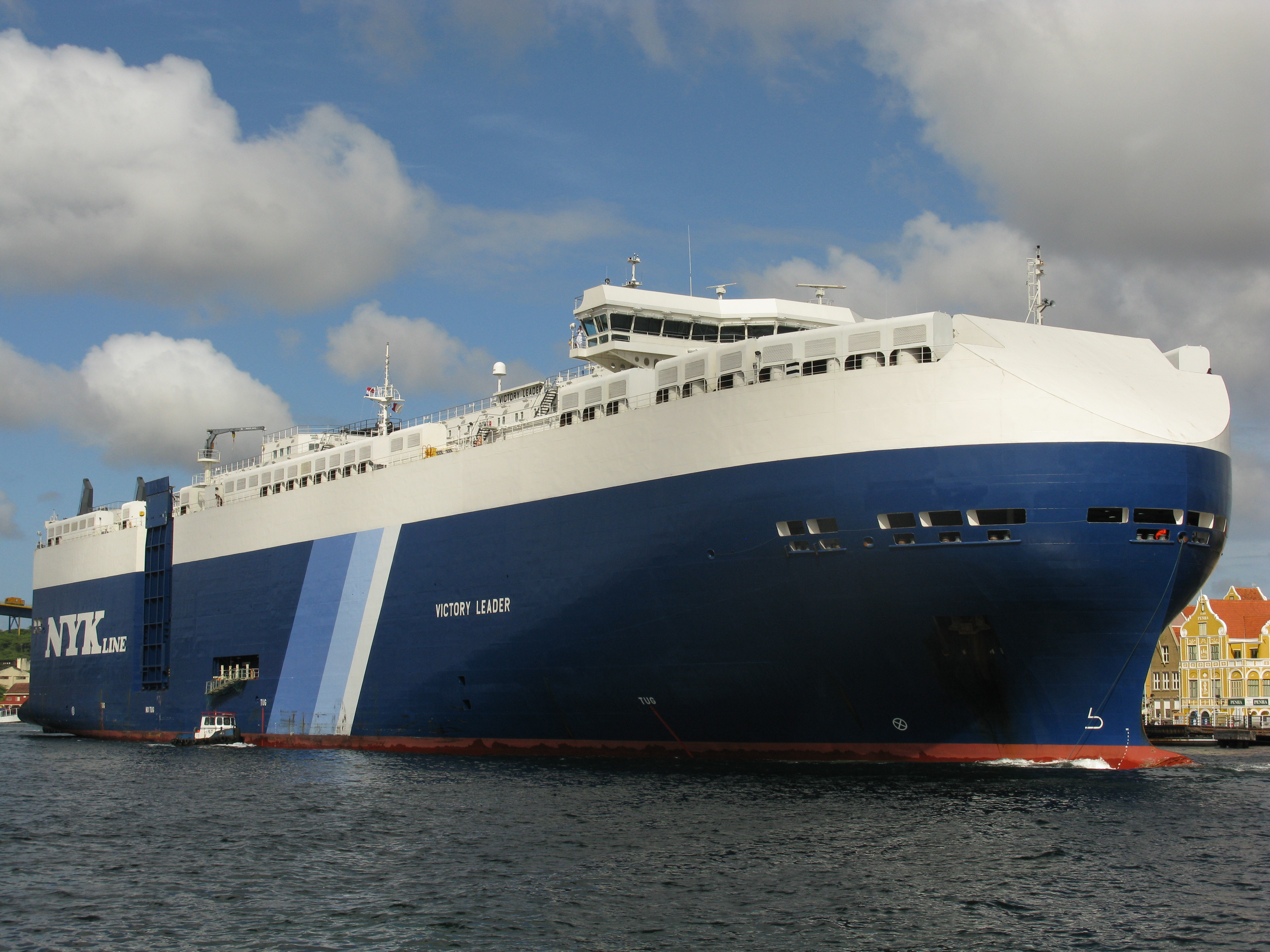 Victory Leader, a roll-on/roll-off ship, leaving the port of Willemstad, Curaçao.